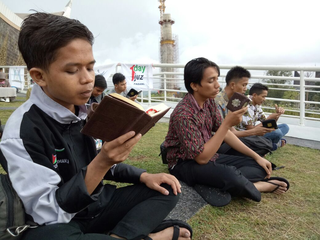 Pelajar Sumbar yang tergabung dalam Asosiasi Pelajar Islam (Assalam) Sumbar ngaji bersama di pelataran Masjid Raya Sumbar menyambut pergantian tahun.